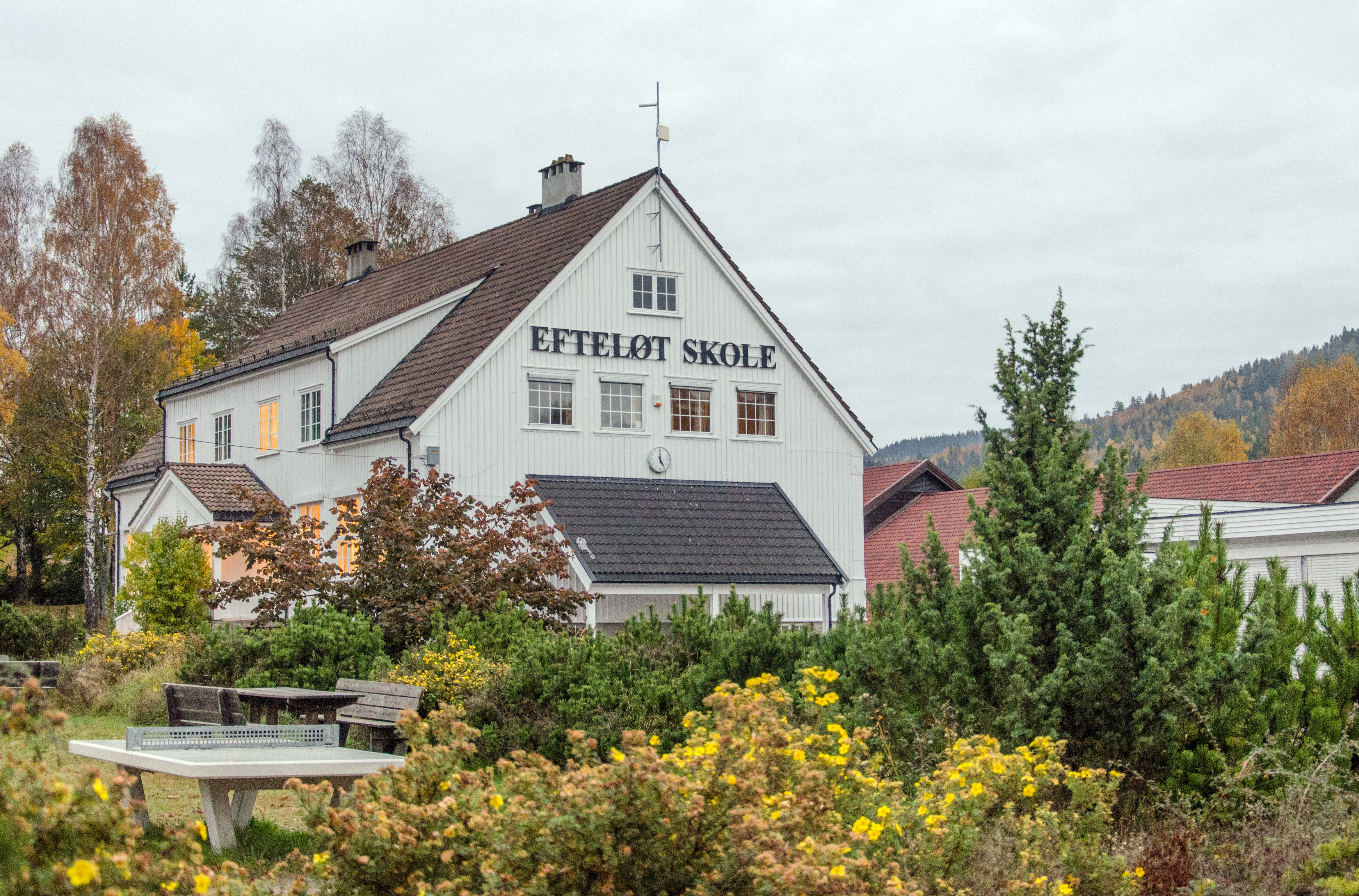 Efteløt skole